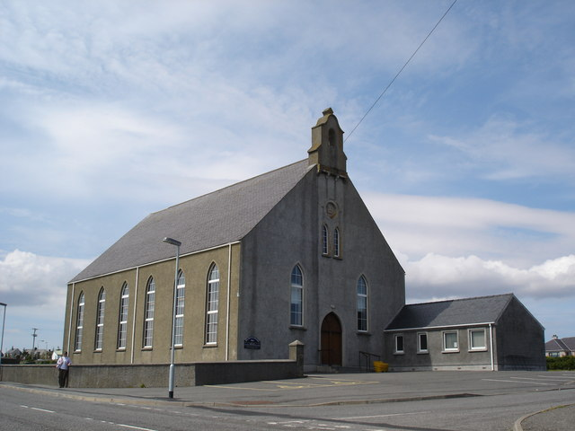 Free Church of Scotland - Back church A very large building, but it is very well supported. They have made a CD of unaccompanied psalm singing called 'Salm', the proceeds going to a local hospice. It is worth buying if you can't go to the Western Isles to take part in a live service on a Sabbath. I can't guarantee it will be to everyone's taste!!